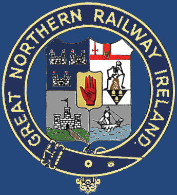 Logo of the Great Northern Railway Ireland This company ceased to exist in 1958, the logo having been in use since 1876 on public advertisements. The assets of this company were not passed into public or private ownership so it is reasonable to assume there is no existing copyright holder.